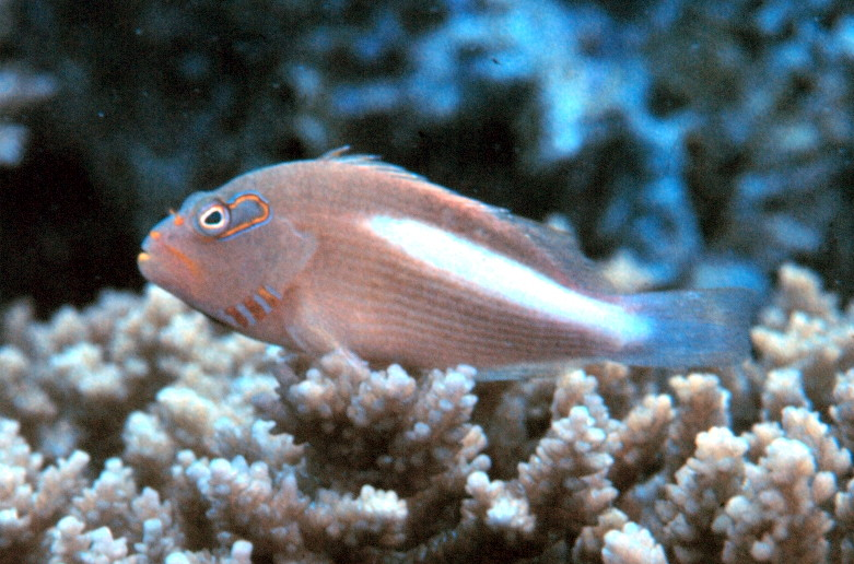 Hawkfish